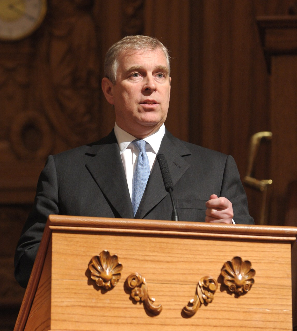 On 29 January 2013, Prince Andrew, the Duke of York, visited Titanic Belfast to talk to over 200 young people from across Northern Ireland who attended an event organised by Cooperation Ireland to celebrate their completion of the first ever National Citizen Service project to be run in Northern Ireland